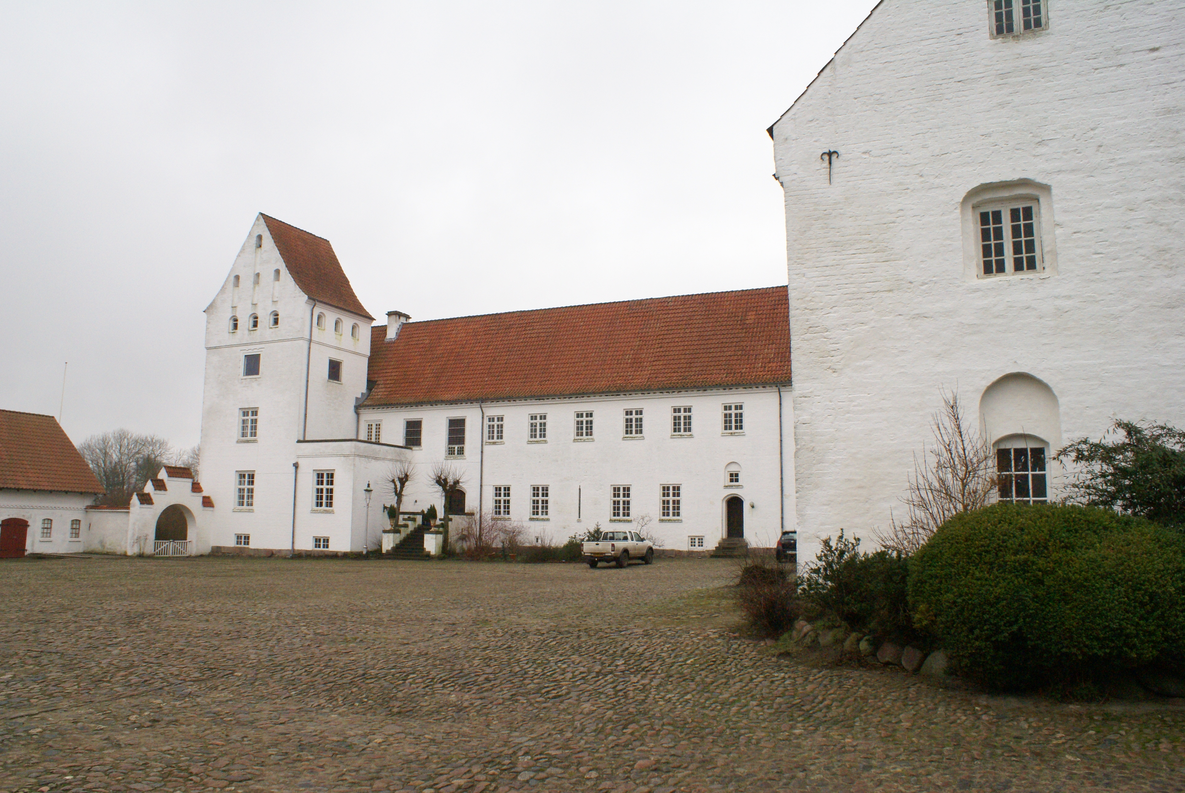 Vrejlev Kloster, Denmark, former convent